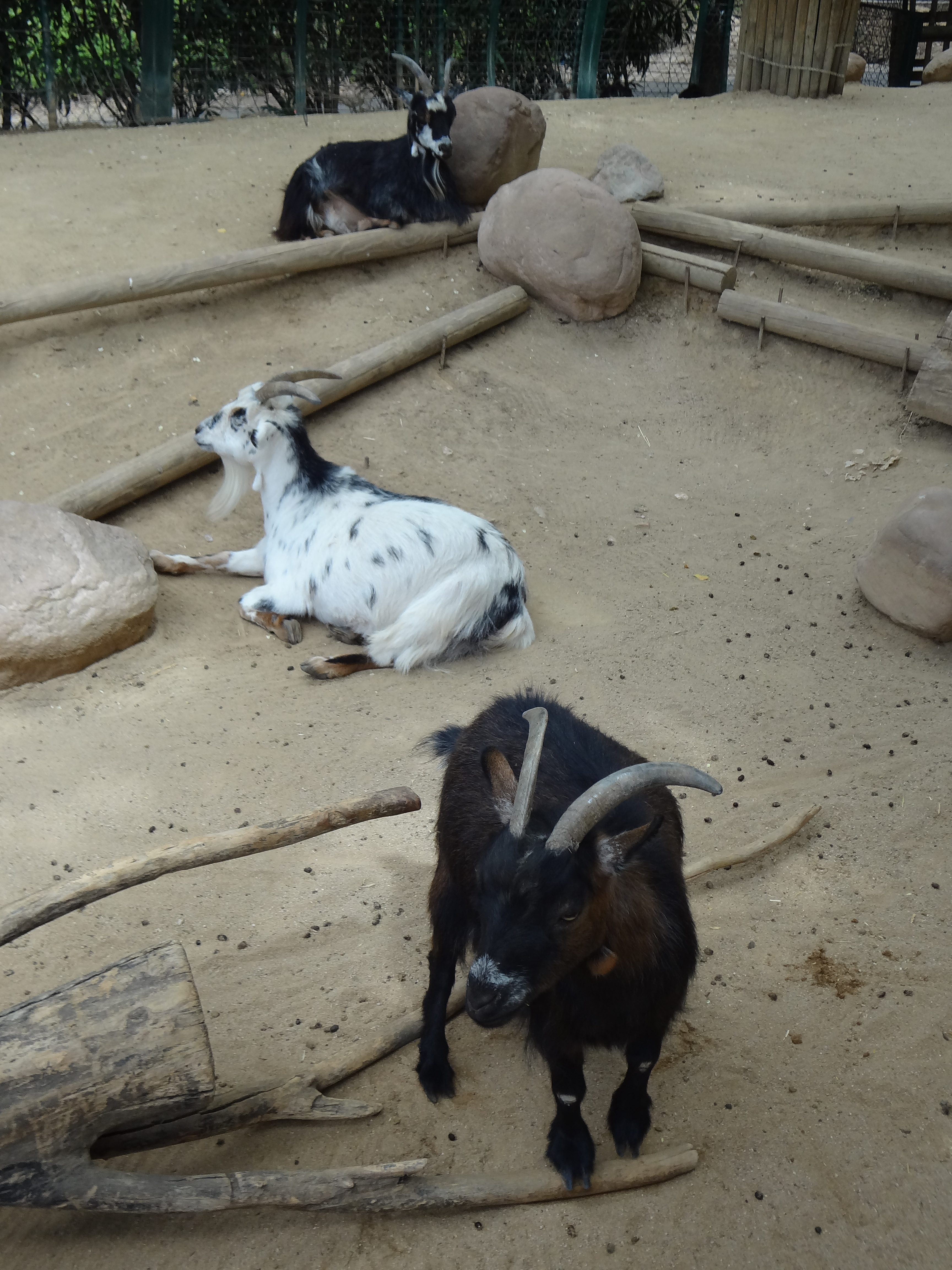 Faunia in Madrid, Spain